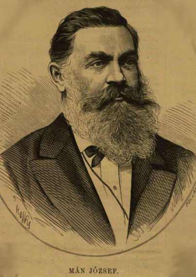 Portrait of Mán József